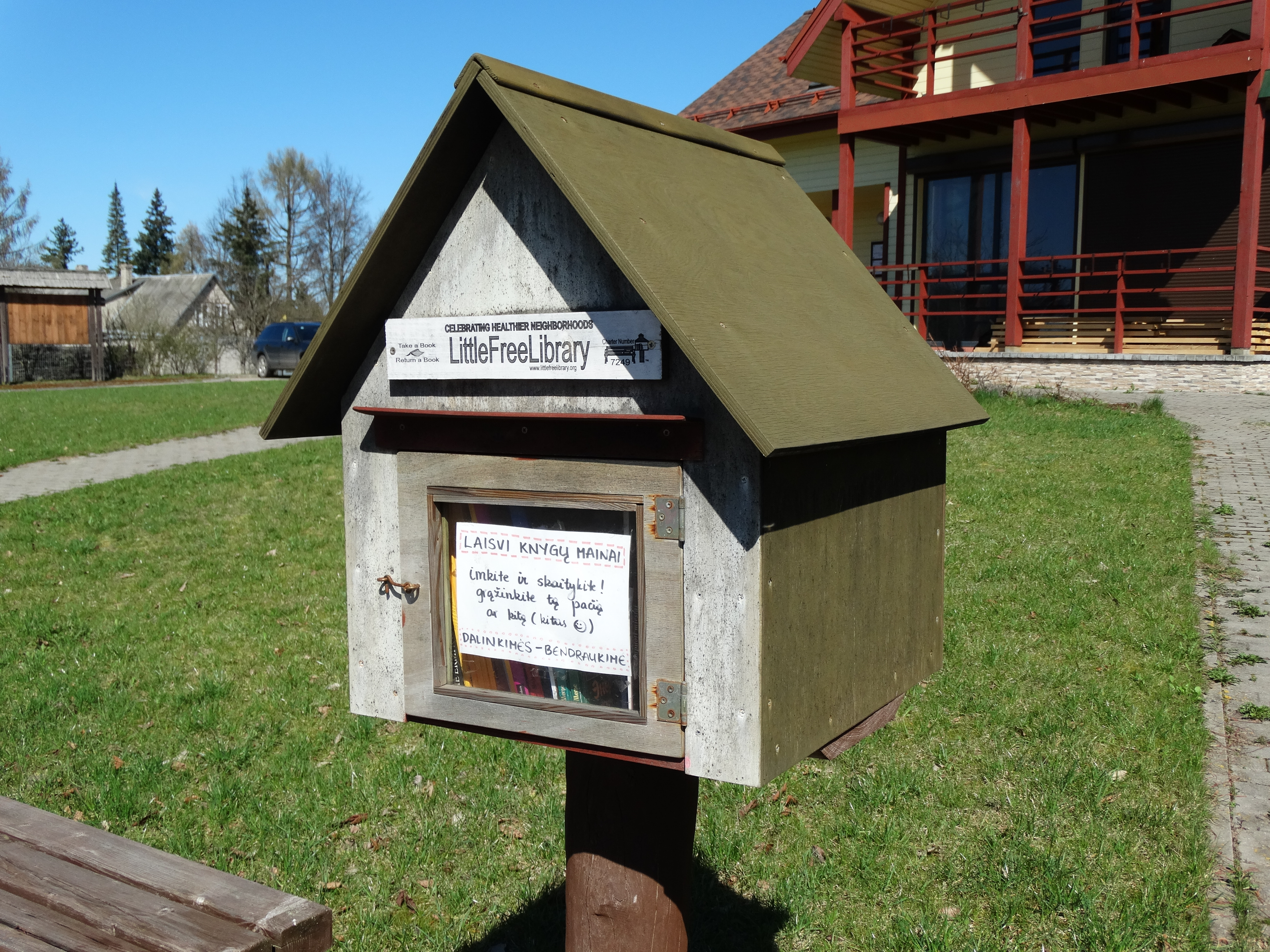 Street book exchange (Little Free Library), Dūkštos, Vilnius district, Lithuania